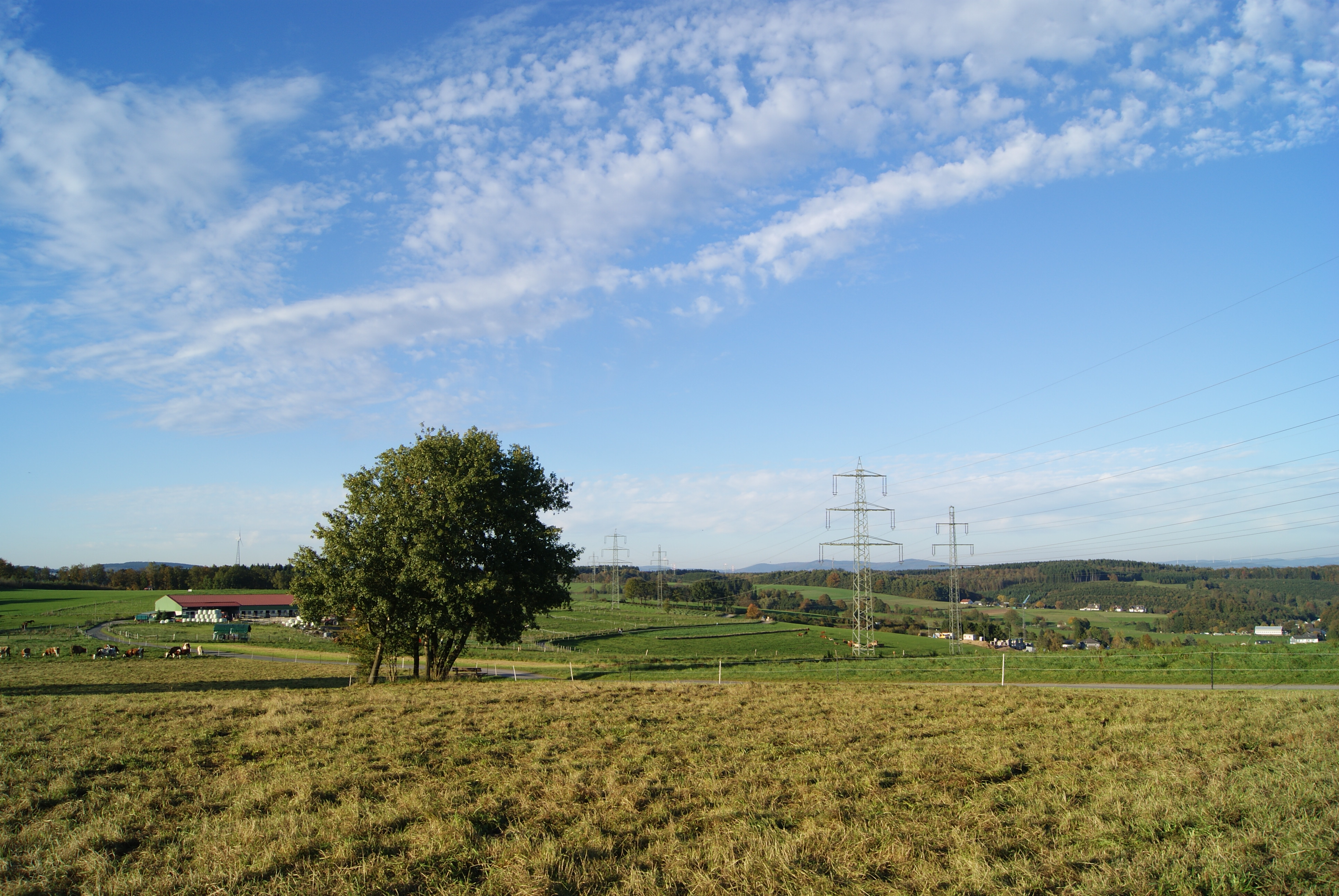 Lurzenbach, Oberschelden, Siegerland, Germany.